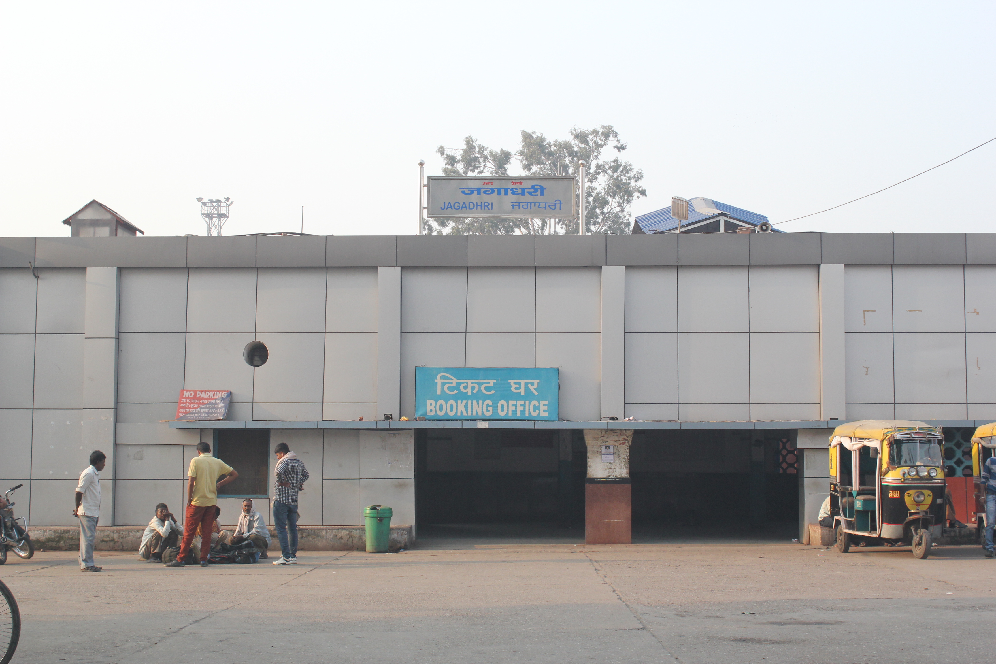 Railway Station, Yamunanagar